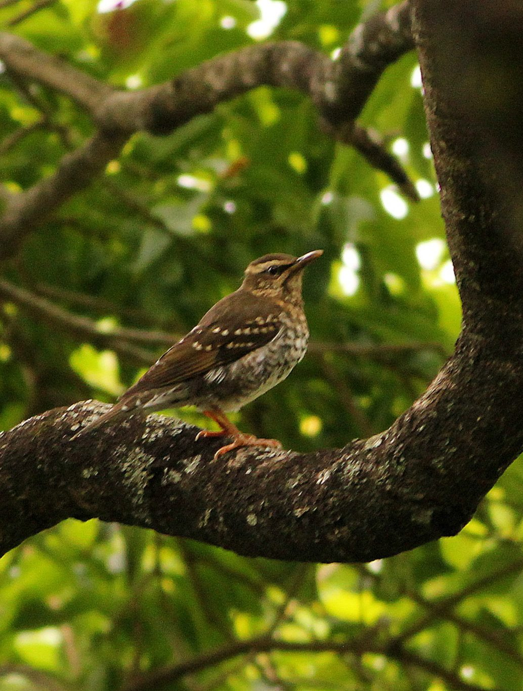 Pied Thrush